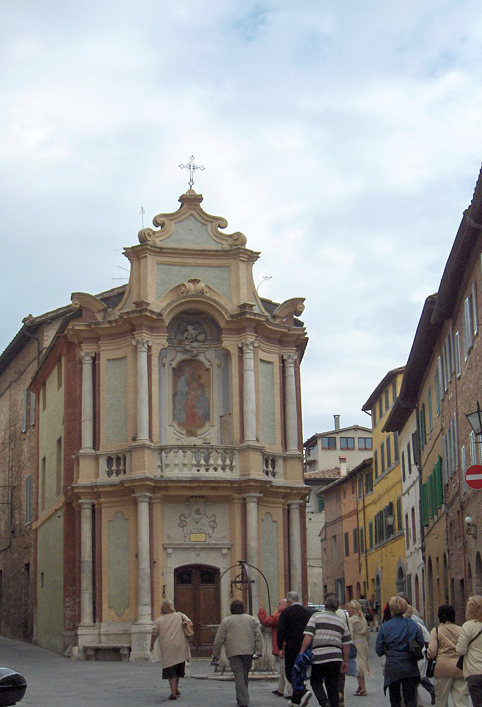 Church of Contrade of Chiocciola; Siena, Italy Own photo - photo made by Georges Jansoone on 11 October 2005